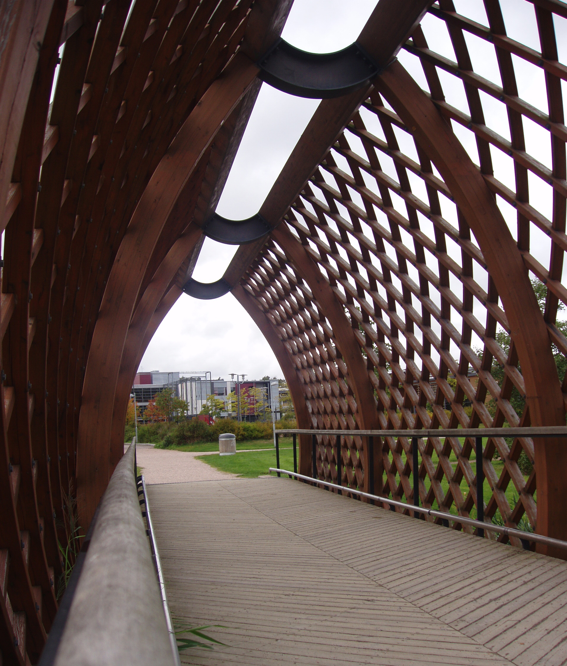 Viikki Bridge, Helsinki, Finland. - Bridge designed by architect Juhani Pallasmaa.